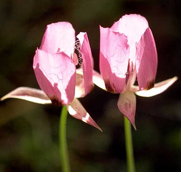 Calochortus longibarbatus. US Forest Service photo, no copyright.